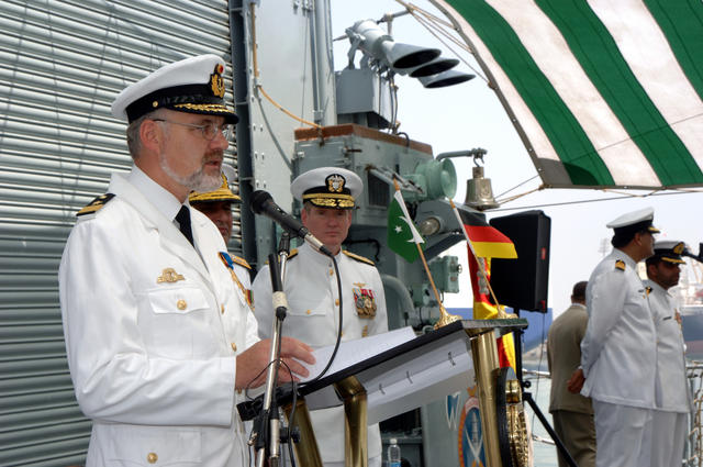 German Rear Adm. Heinrich Lange, incoming commander of Combined Task Force 150, speaks during a change of command ceremony aboard Pakistani naval ship PNS Shahjahan (D 186) as the outgoing commander, Pakistani Rear Adm. Shahid Iqbal, middle, and U.S. Navy Vice Adm. Patrick Walsh, the Combined Forces Maritime Component Commander, look on in Mina Salman, Bahrain, Aug. 22, 2006. (Released) (Released to Public)